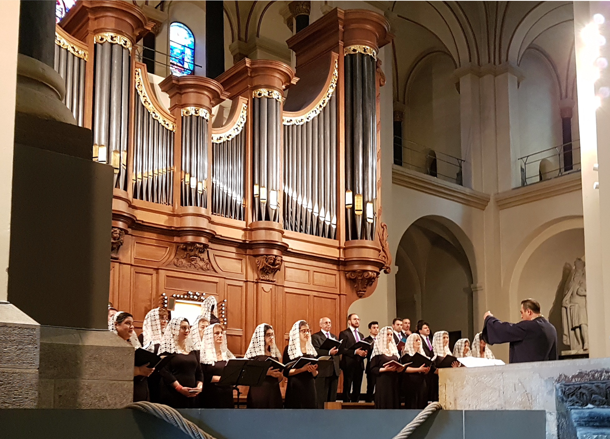 The choir during an Armenian Apostolic liturgy in the westwork of the Roman Catholic Basilica of Saint Servatius in Maastricht, Netherlands. The service was part of the 2018 Heiligdomsvaart ("relics pilgrimage"), a religious and historic event that takes place once in seven years and dates back to the Middle Ages. The Armenian Christians have a special relationship to Saint Servatius (†384), the Armenian-born bishop, missionary and patron saint of Maastricht.